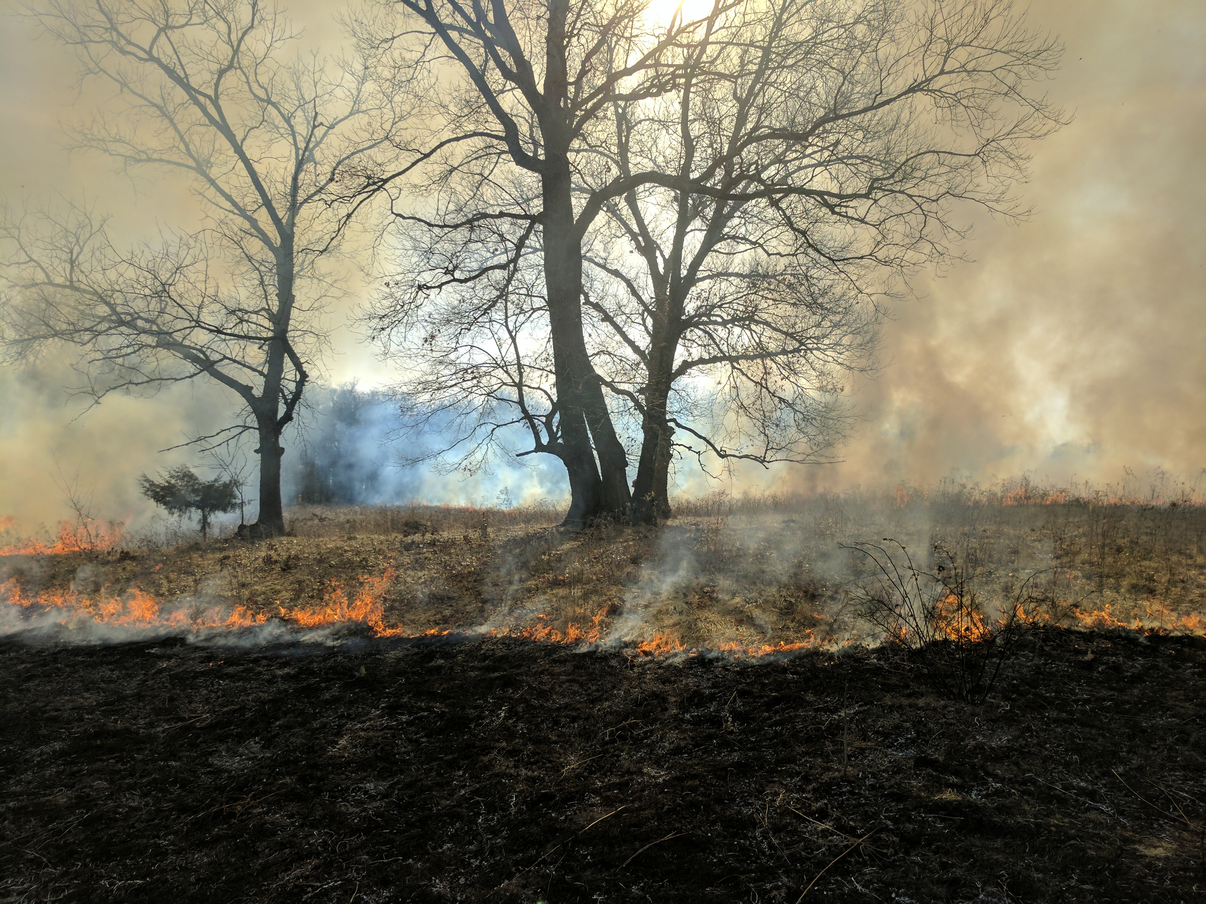 Prescribed Burn in Oak Savannah in Van Buren County, Iowa.